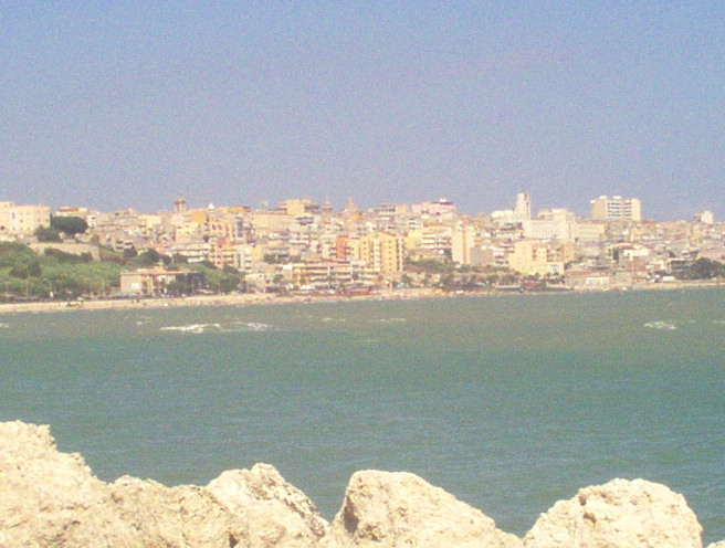 Gela (province of Trapani, Italy) from its harbour; photo by Valerio De Carlo, Summer 2006